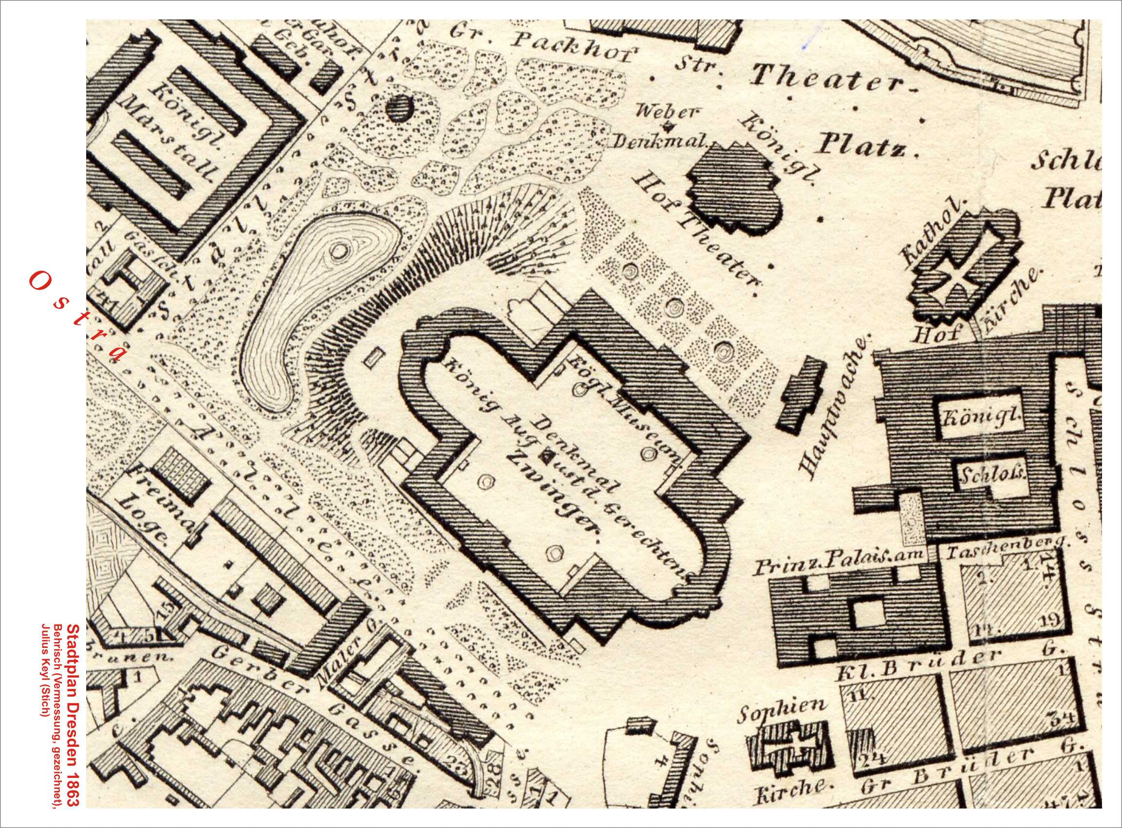 detail of a city map of Dresden, location of Zwinger (1863)